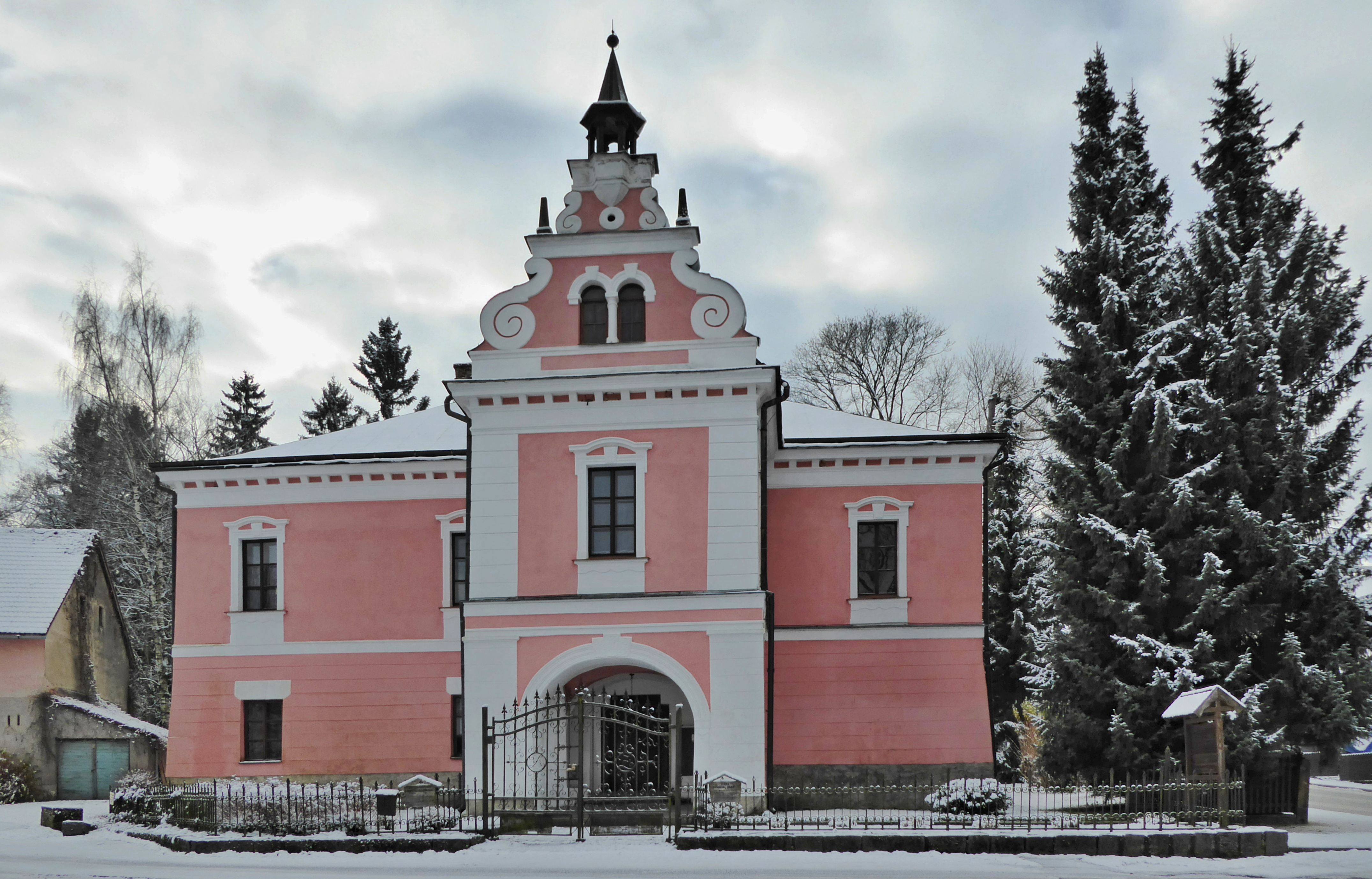 Rural chateau with renaissance layout from the 16th century, after a fire in 1896 rebuilt in pseudo-baroque style. On the place of the chateau originally a fortress from the 15th century named "Odranec", later hamlet with name Hamr nad Kamenicí, since 1769 called Svobodné Hamry. Since 1862 the owner was the czech architect Jan Nevole (1812–1903), he lived in the chateau from 1863 until his death. During life of Jan Nevole, the chateau became also a cultural center with a patriotic element. Monument protected building from May 3, 1958. In the years 1982–1996 he was the seat of the museum of folk architecture titled the Set of Folk Buildings Vysočina (now: Open-air Museum Vysočina), rural chateau since 1997 private object. Photo location: Czechia, Pardubice Region, municipality Vysočina, hamlet of Svobodné Hamry, Rural Chateau No. 1, Stružinecká knoll land (azimuth 198°).